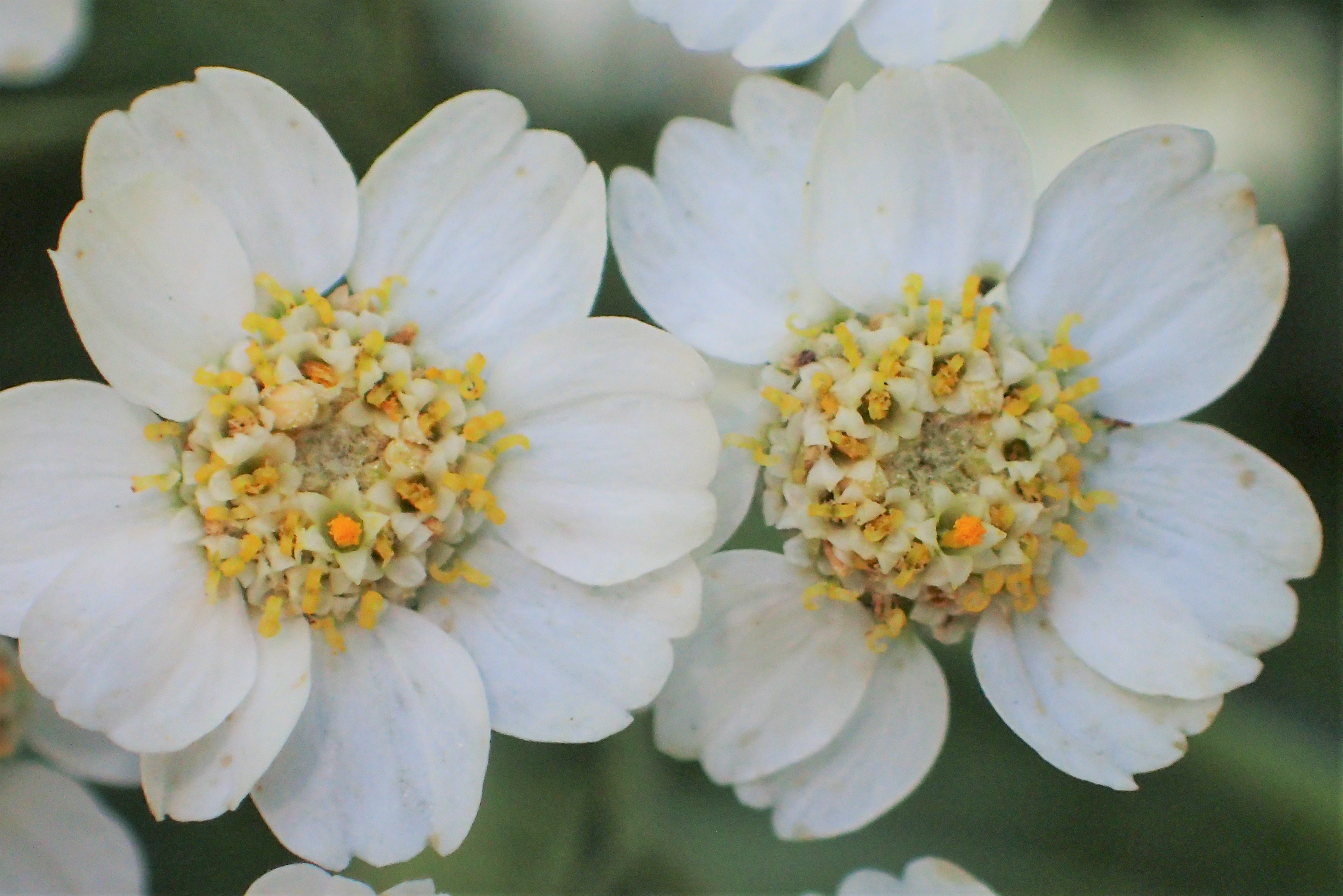 Achillea salicifolia in the UMCS Botanical Garden in Lublin